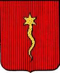 Recorded in the documents of Sperlinga Castle